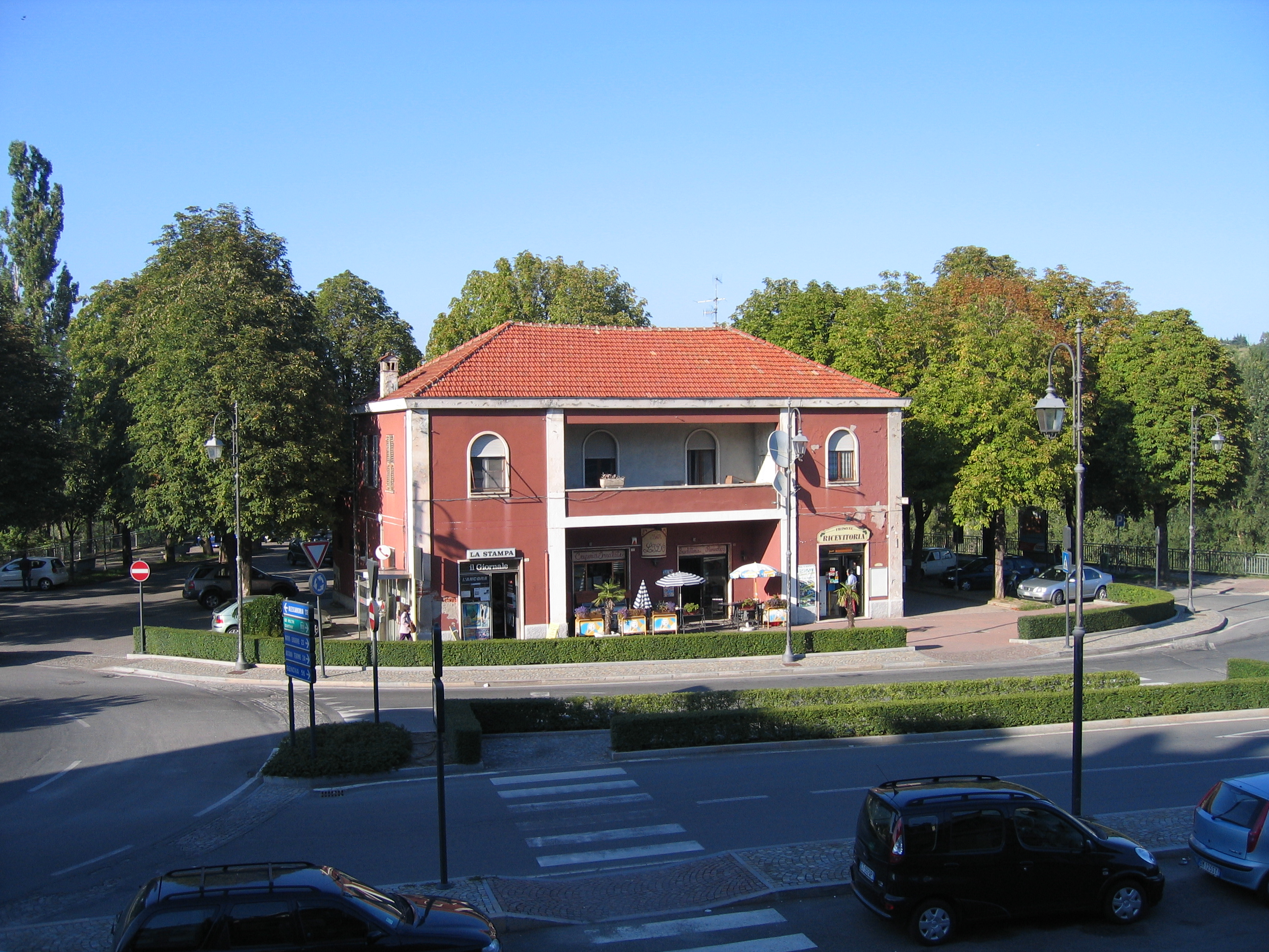 Former FVO Ovada train station in 2007